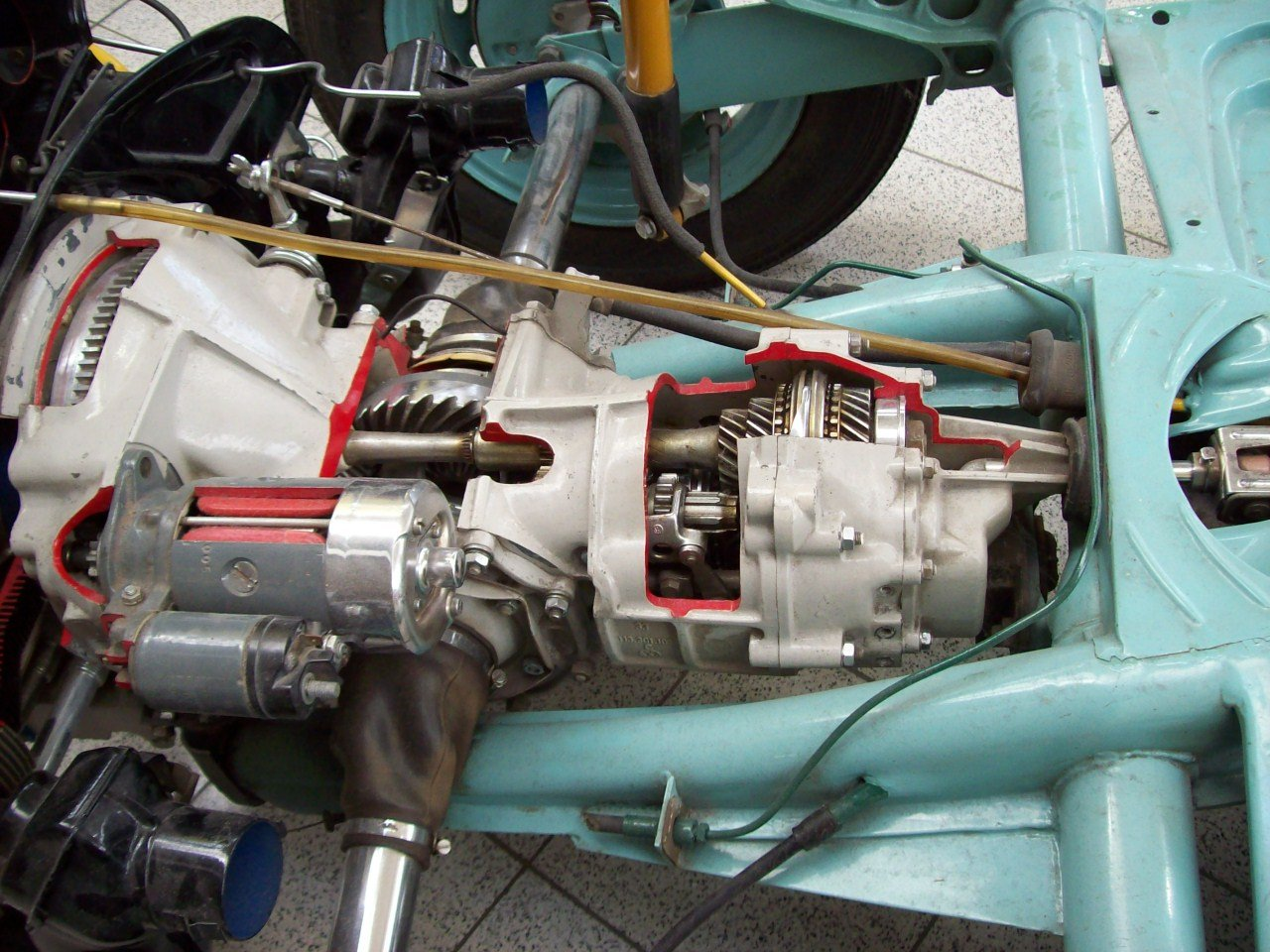 1966 VW Käfer 1300: gear box and starter (cut)